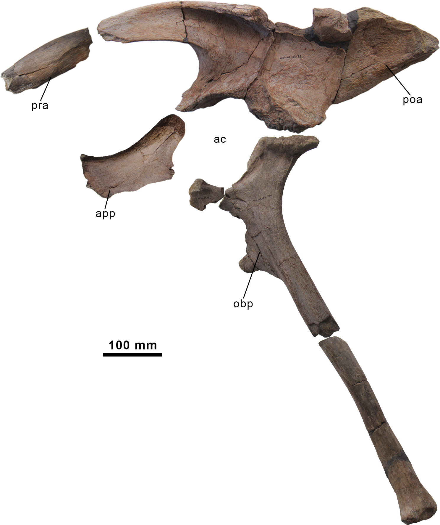 Pelvic girdle of the holotype specimen of Morelladon beltrani (CMP-MS-03). Left pelvic elements (ilium, pubis and ischium) in left lateral view. Abbreviations: ac, acetabulum; app, anterior pubic process; obp, obturator process; poa, postacetabular process; pra, preacetabular process.